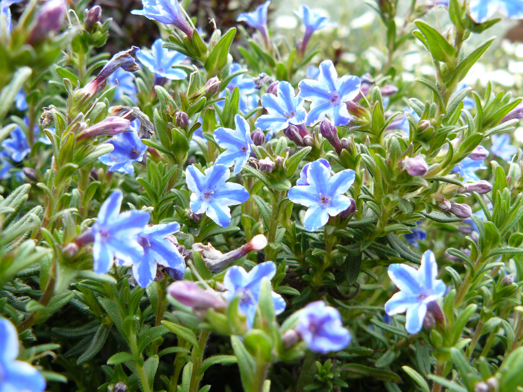 Lithospermum diffusum 'Heavenly Blue' in cultivation